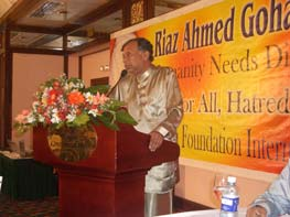 During the Colombian Ministers speech